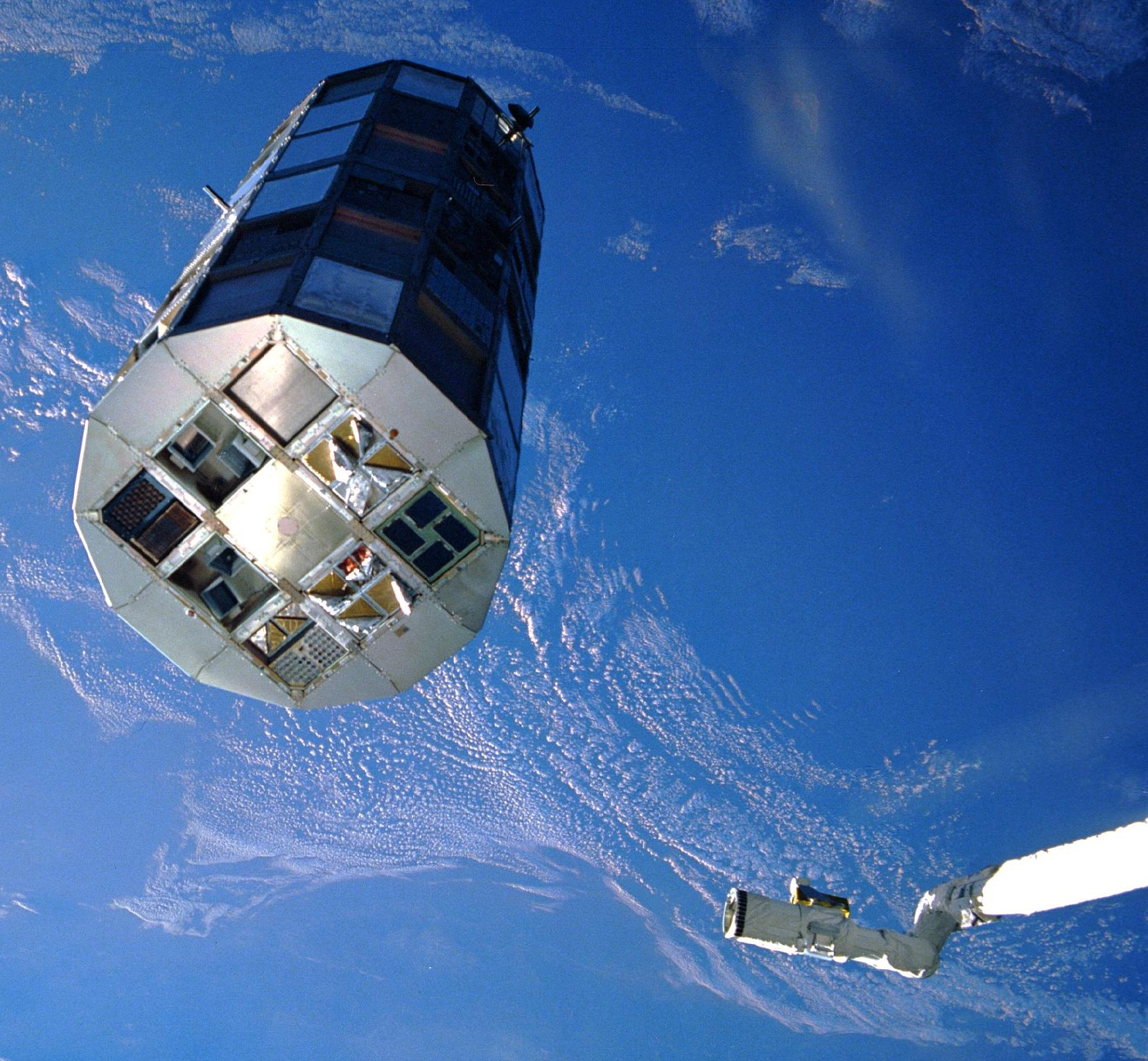 An overall view of the LDEF from the Space end prior to capturing LDEF with the Orbiter's Remote Manipulator System (RMS) arm. Note the extensive damage to the Heavy Ions In Space Experiment thermal covers and the RMS arm poised to grapple the LDEF. The aft flight deck window frame blanks out an area along the left side of the photograph and the background is provided by the Earth and clouds.